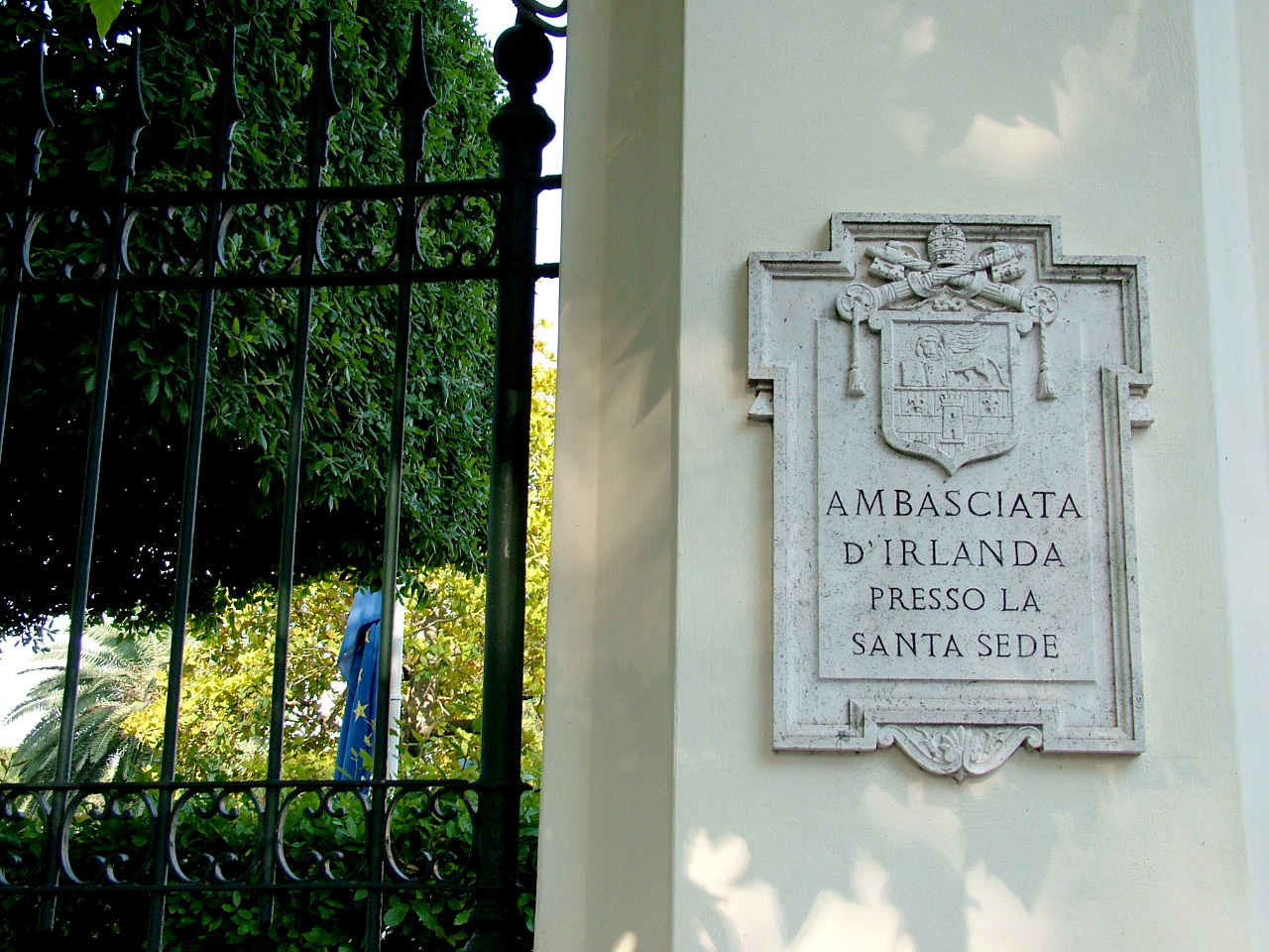 The former Irish Embassy to the Holy See in Rome. The Irish Department for Home Affairs closed the embassy to the Holy See in 2011 and appointed a non-resident ambassador to the Vatican; meanwhile moved the embassy to Italy to the building formerly used by the one to the Holy See. In 2014 Ireland re-established a resident Ambassador which is hosted in an apartment in via Garibaldi